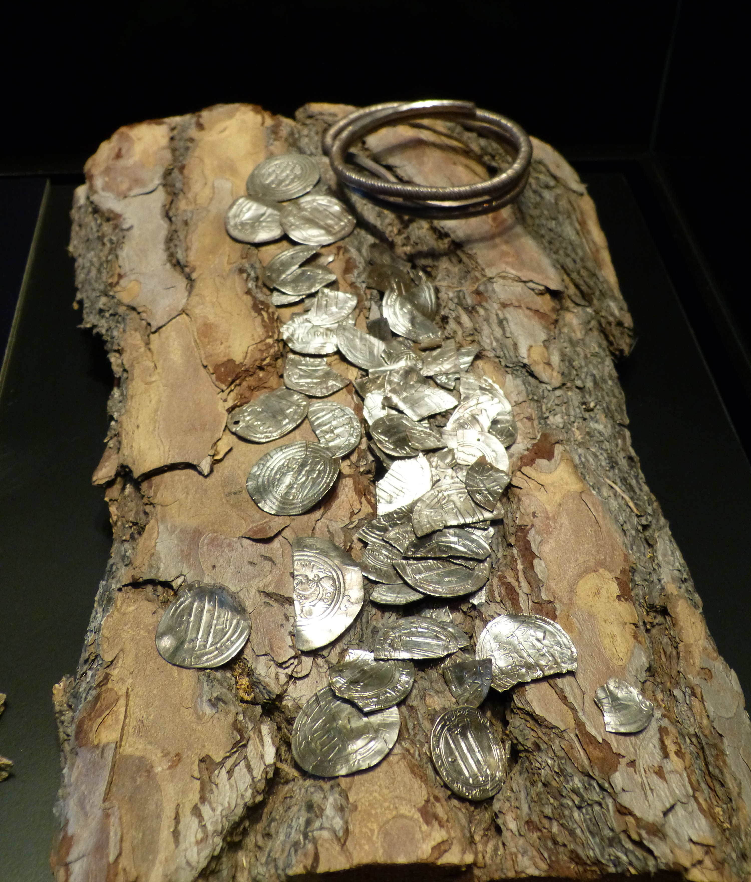 Groß Raden ( Mecklenburg ). Archaeological museum: Treasure ( 820s ) of islamic silver coins ( Bagdad / North Africa ), from Anklam, Ostvorpommern district.